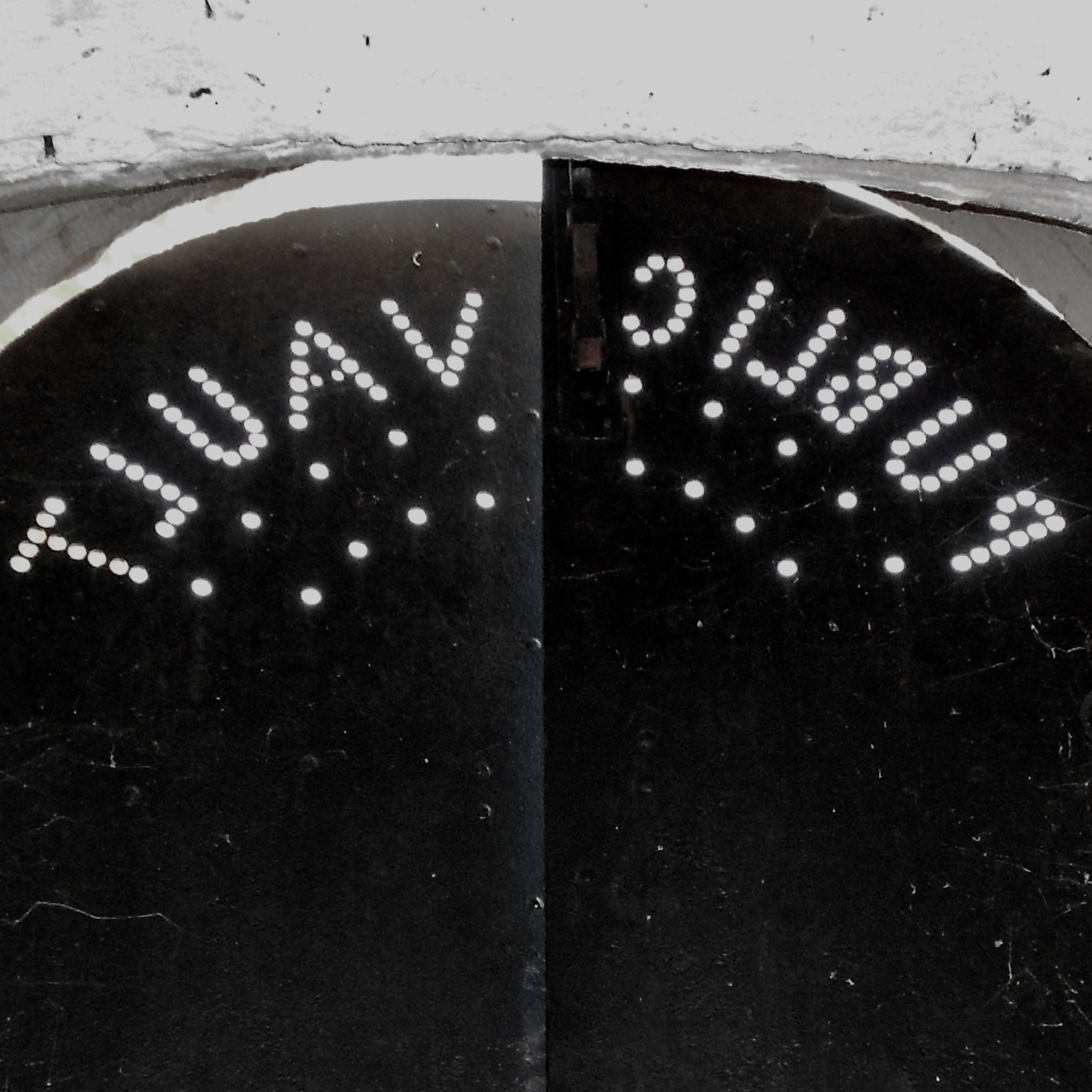 View of the door of the Public Vault in the Congressional Cemetery in Washington, DC, from inside the vault. Presidents John Quincy Adams, William Henry Harrison, and Zachary Taylor all stayed here temporarily as well as First Lady Dolley Madison. Congressional Cemetery is private, but closely related to the US Congress, and listed as a National Historic Landmark. Cropped version of File:Public Vault interior.JPG